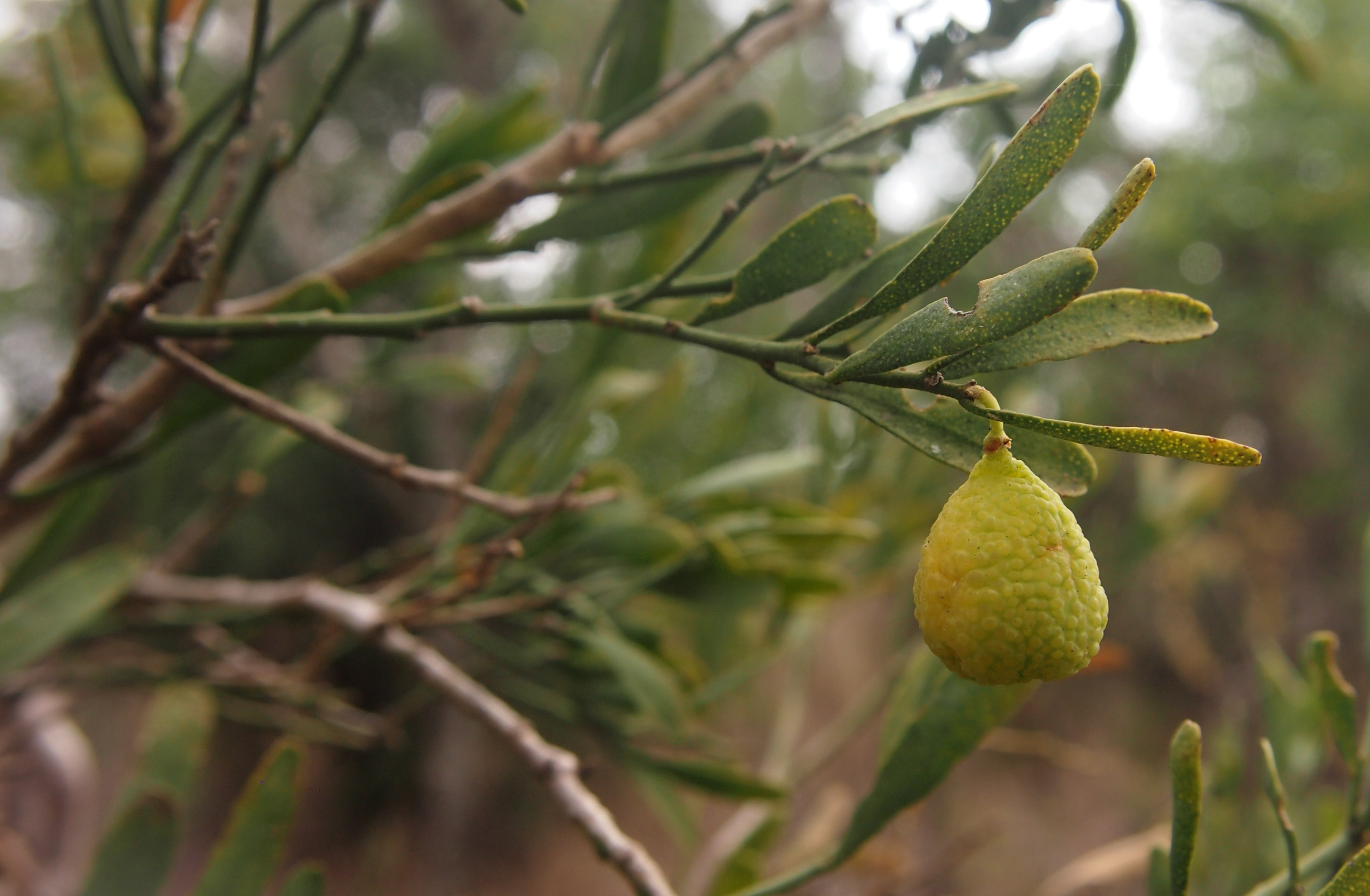 Citrus glauca bushes